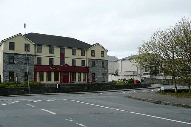 The Hanley A pub at Taylor's Hill adjacent to the Galway western relief road.